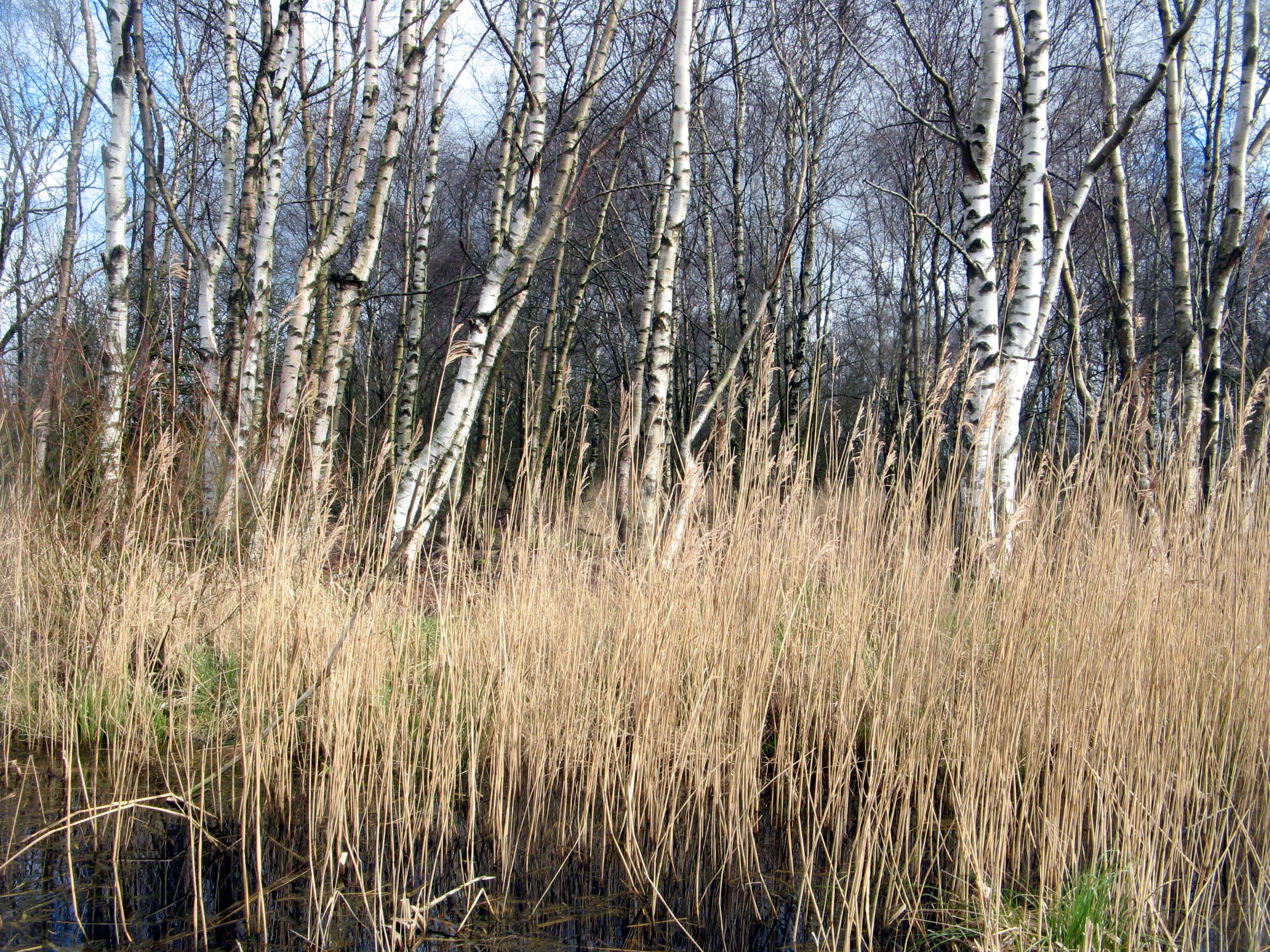 Birch trees and reet and the "White moor", Neuenkirche, Germany